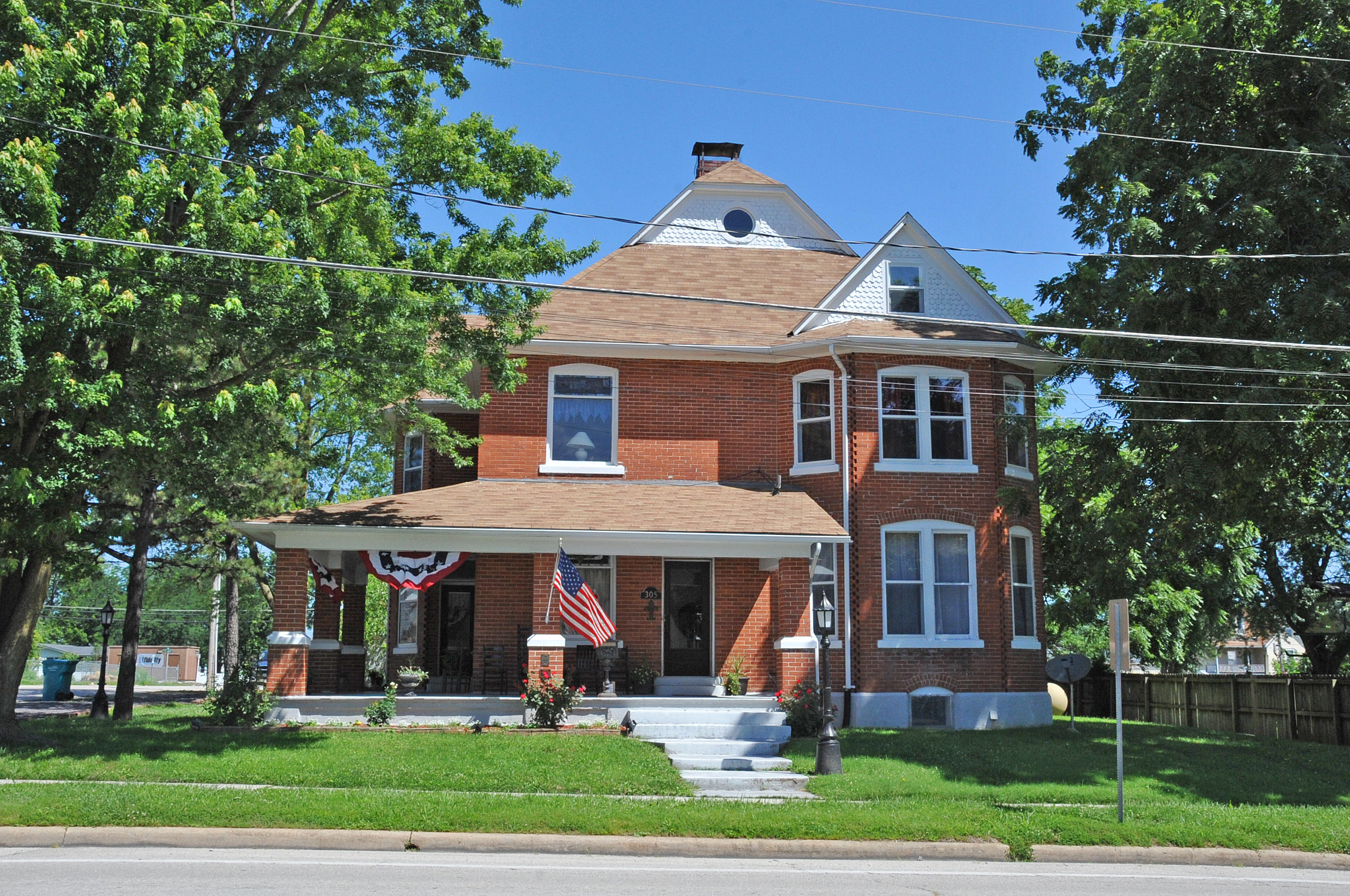 Victorian-designed house was built about 1880 by a local businessman and former two-term mayor. The house was closed for 30 years after his death in 1941.